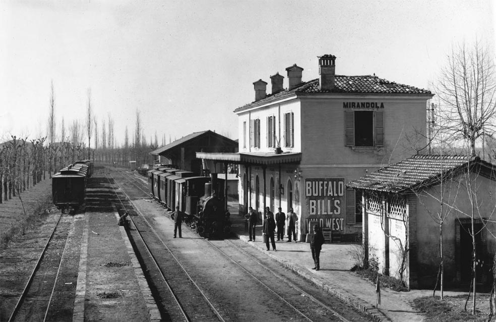 Mirandola station on the Modena-Mirandola railway, run by the PLC Ferrovia Sassuolo Modena Mirandola Finale (FSMMF). On the wall is clearly visible a poster advertising the Buffalo Bill's Wild West Show held in Modena on 6-7 April 1906.